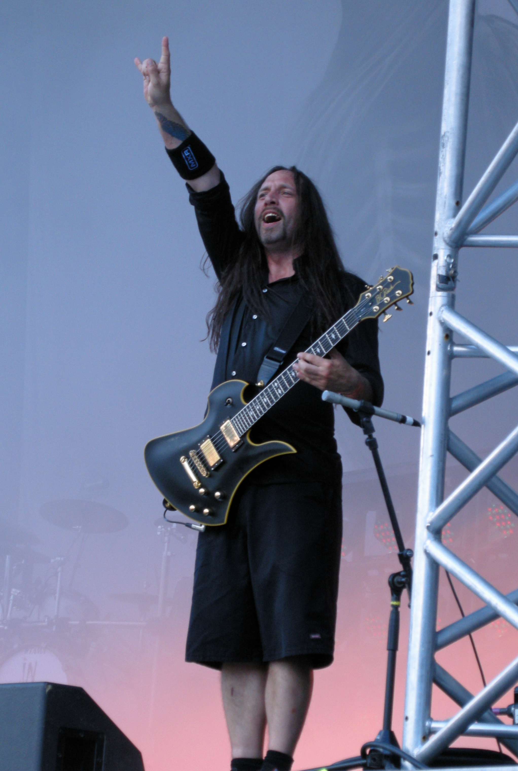 Niclas Engelin with In Flames at Sonisphere Festival, Stockholm, Sweden 2011